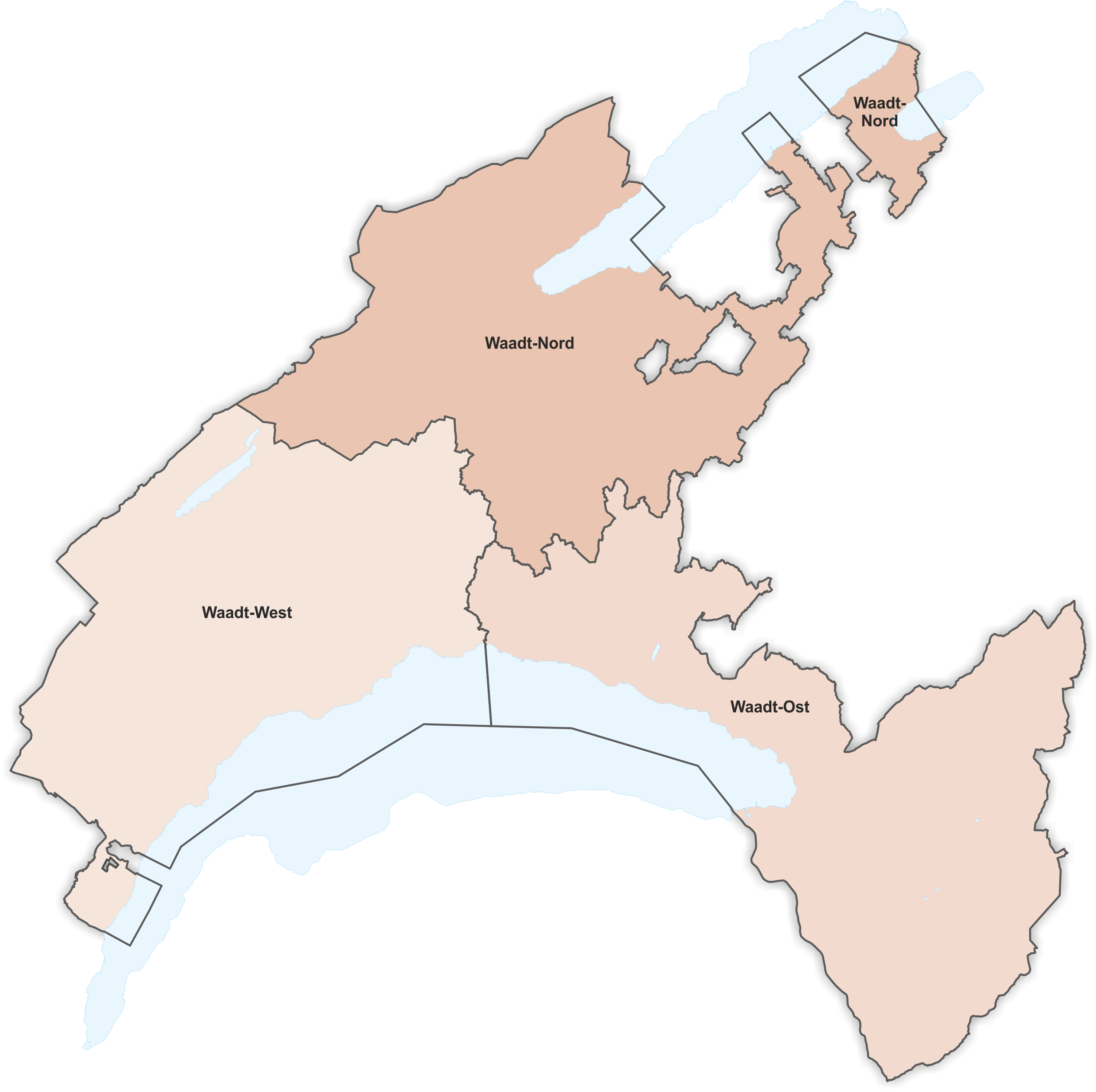 National council constituencies in the canton of Vaud from 1863 to 1869